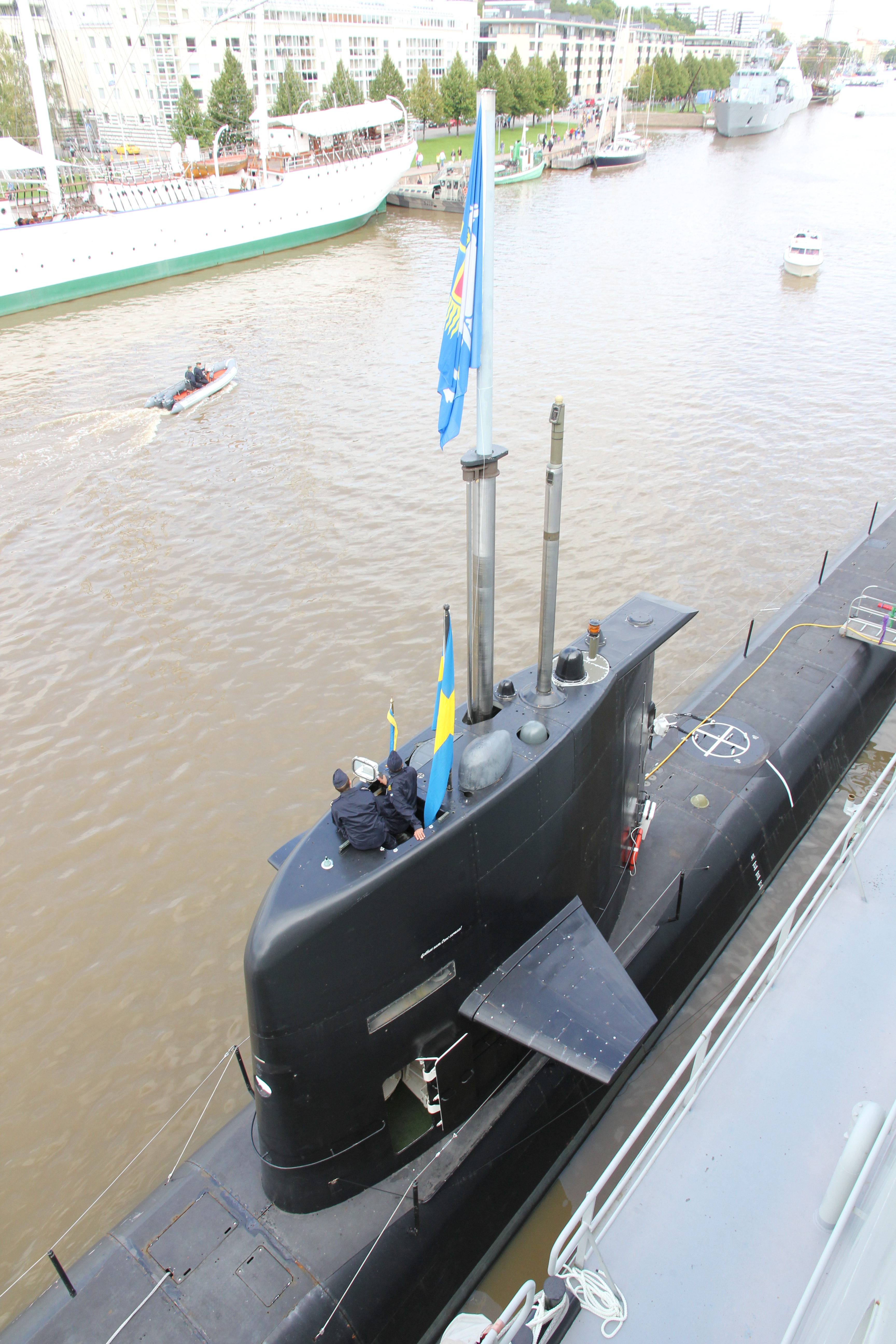 Swedish submarine Gotland photographed during the Northern Coasts 2014 exercise public pre sail event in Aura river in Turku. Photographed from Swedish patrol vessel Carlskrona (P04).